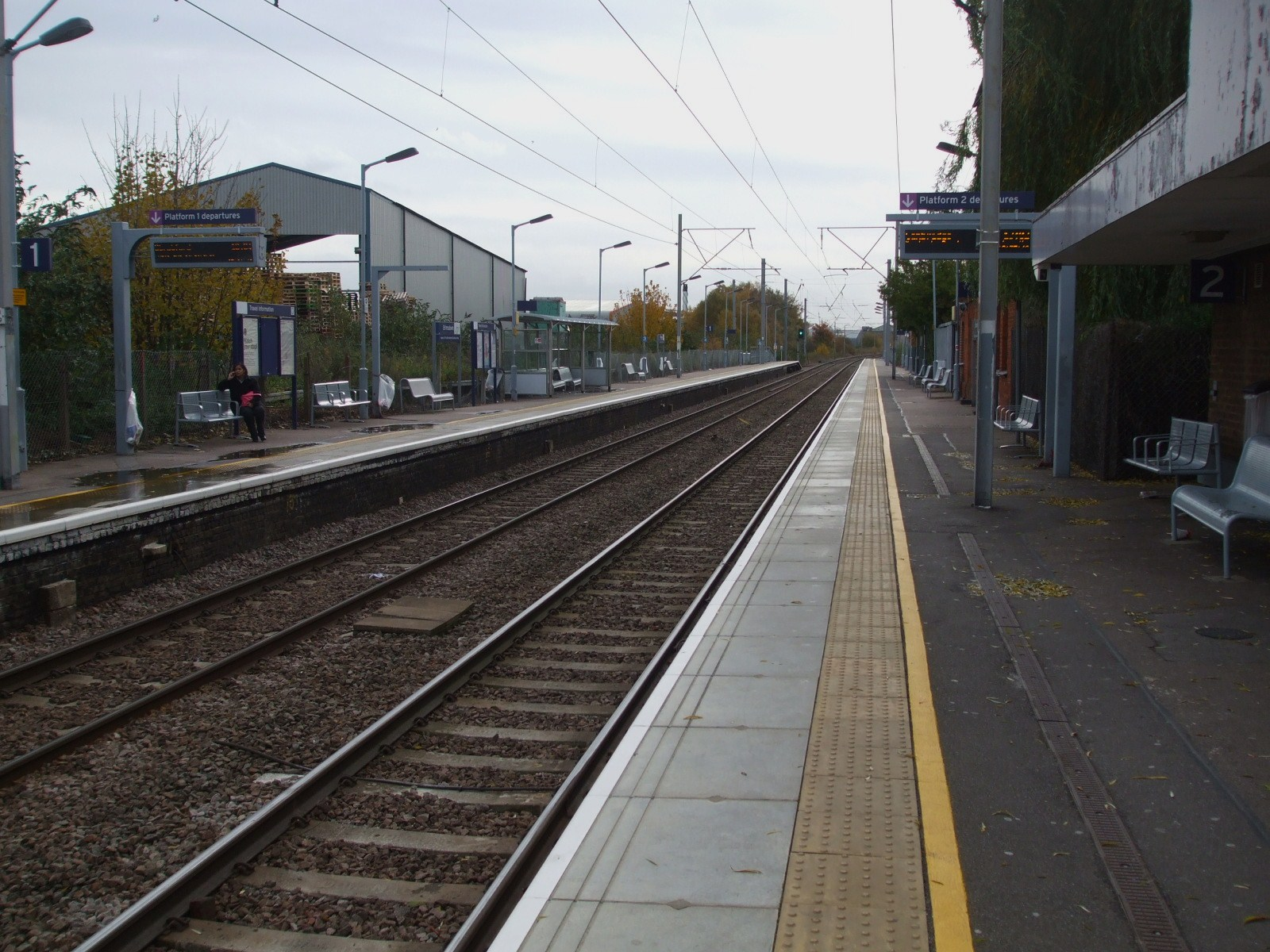 Brimsdown station looking south